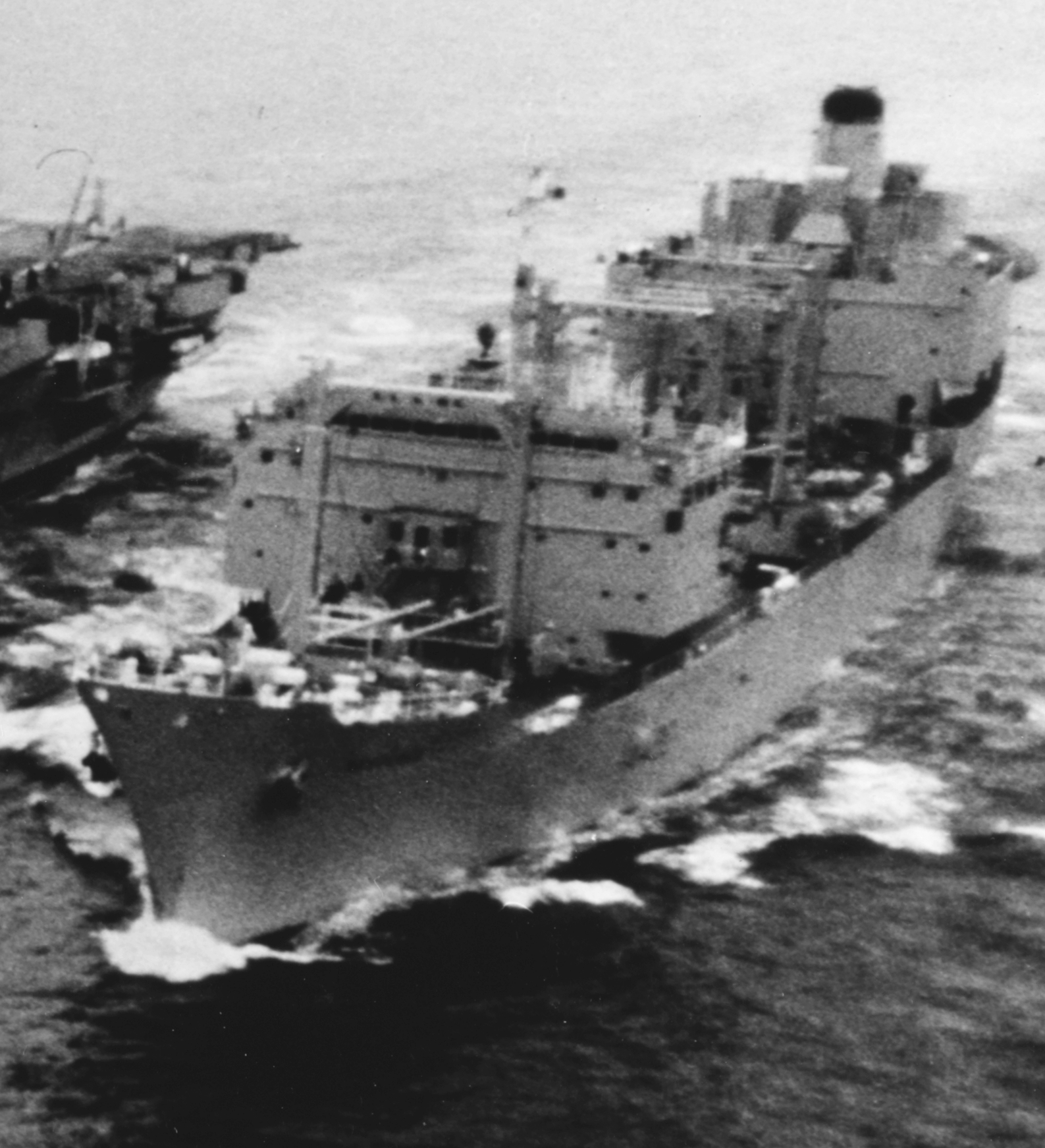 The Royal Navy fleet replenishment oiler RFA Olna (A123), left, refuels the aircraft carrier HMS Eagle (R05), during "Operation Peacekeeper" on 24 September 1969. The replenishment ship RFA Resource (A480) cruises at right.